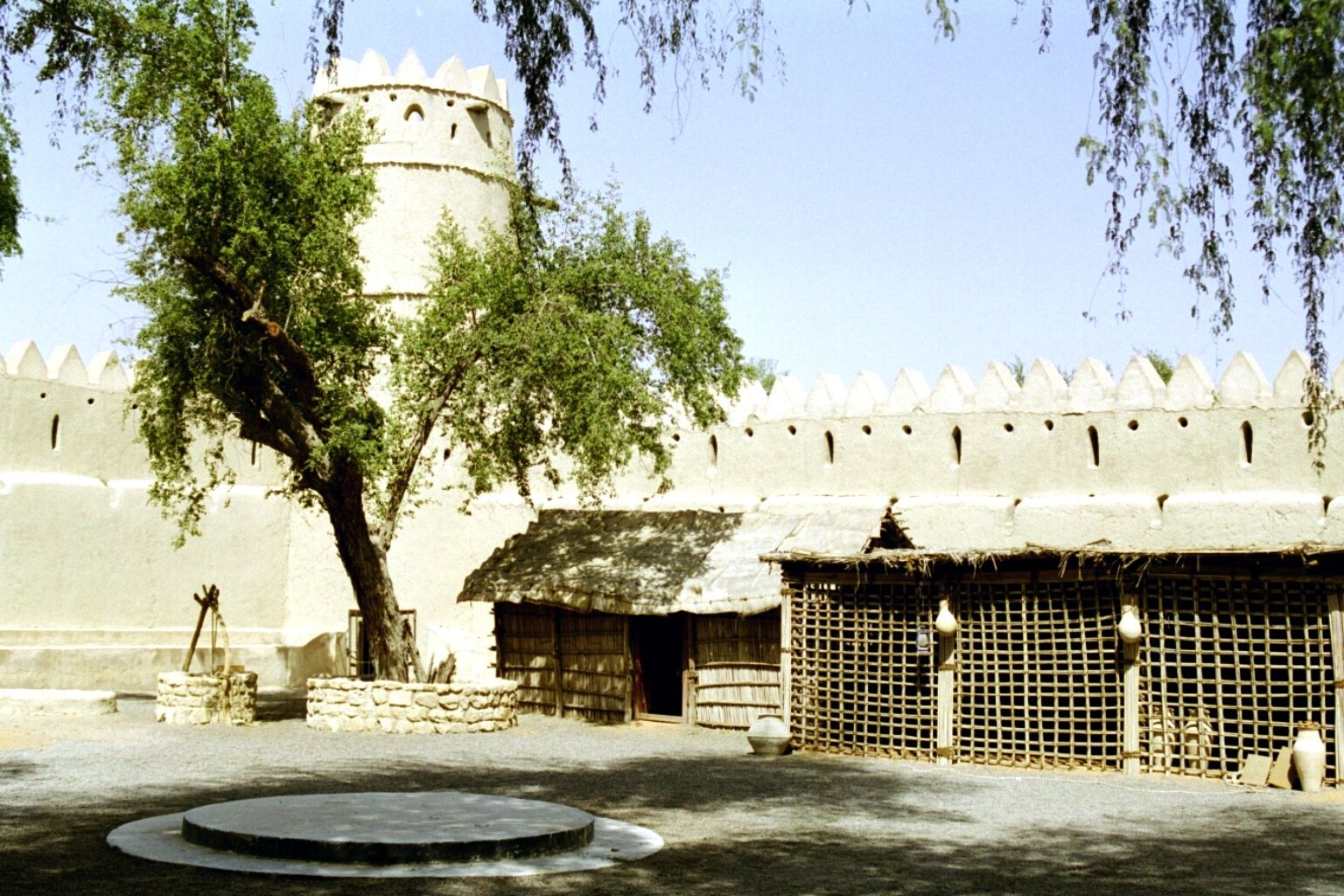 Al-Ain altes Fort